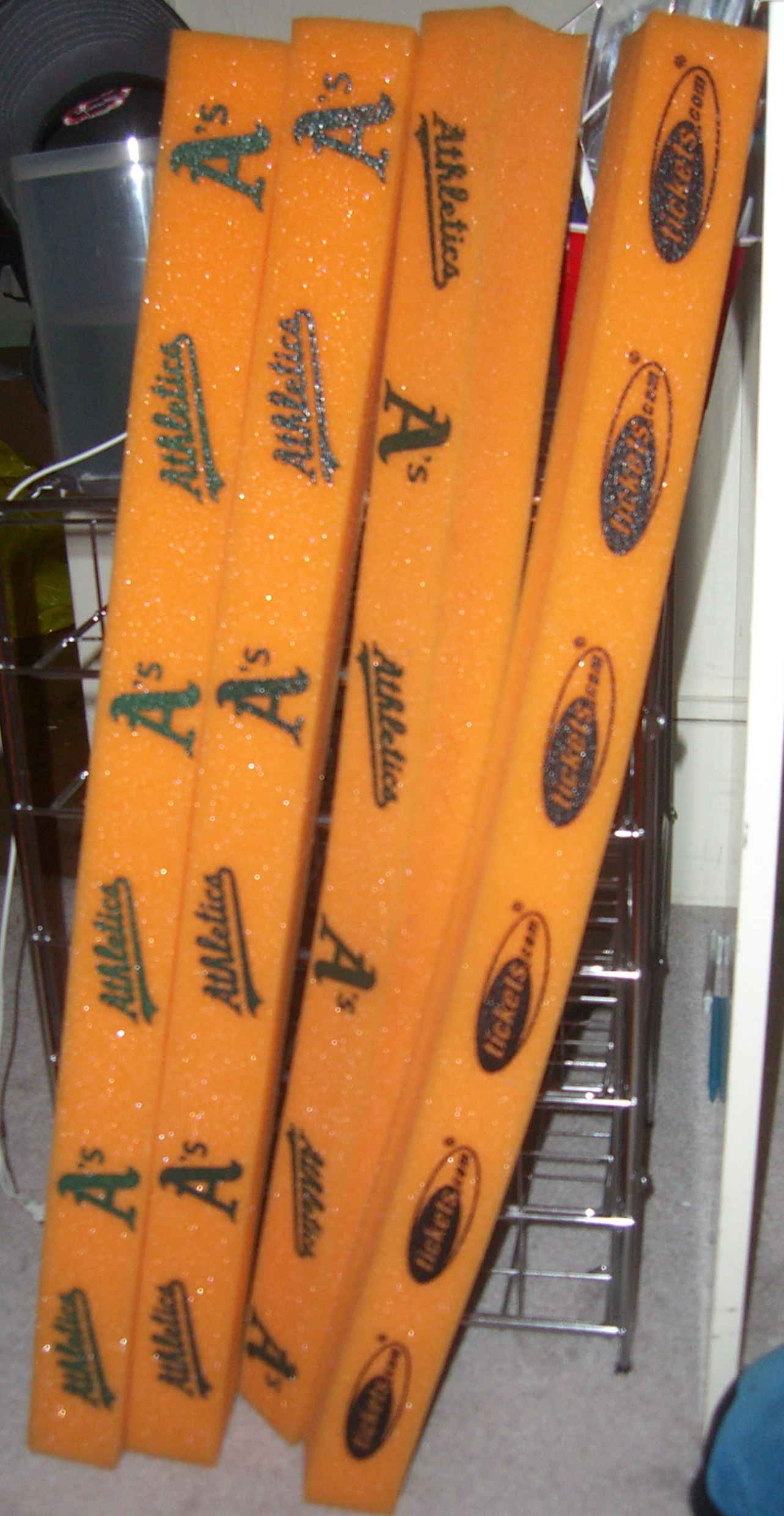 Rally sticks 07:02, 13 September 2007 . . Calbear22 . . 1283×2481 (1,021 KB)